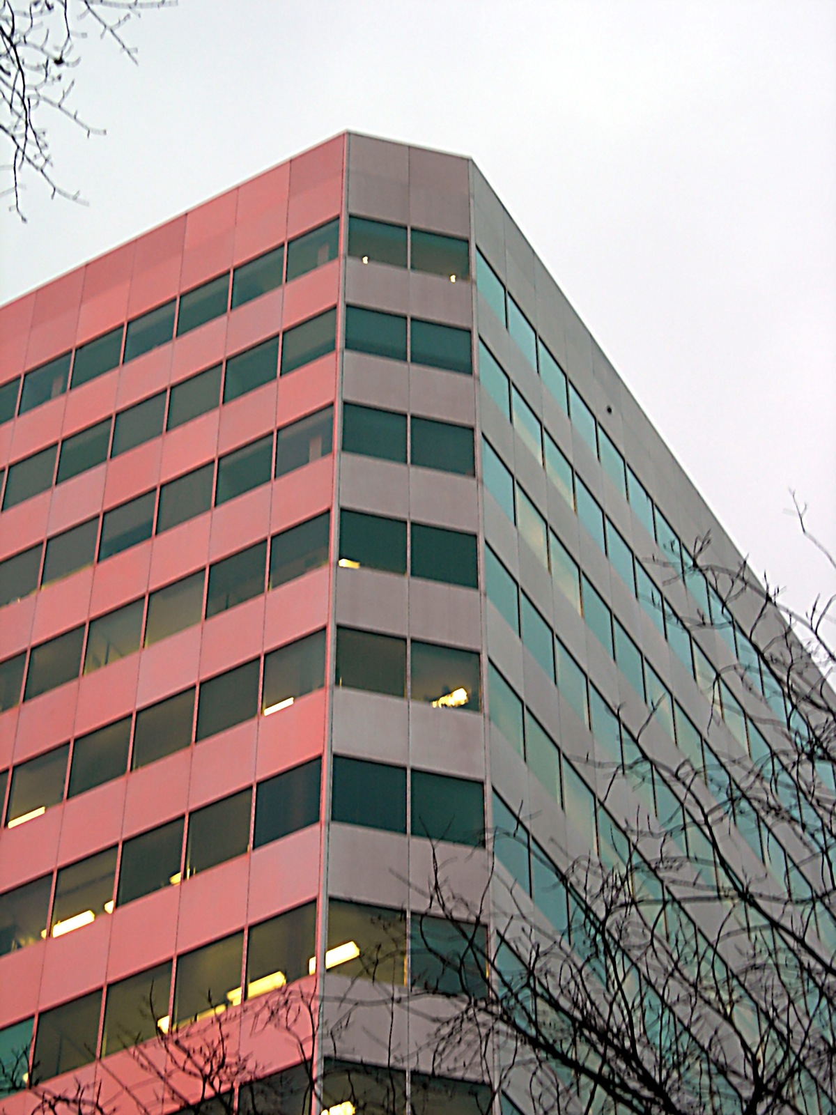 Pink sunlight on the Woodsworth Building on Broadway, Winnipeg.